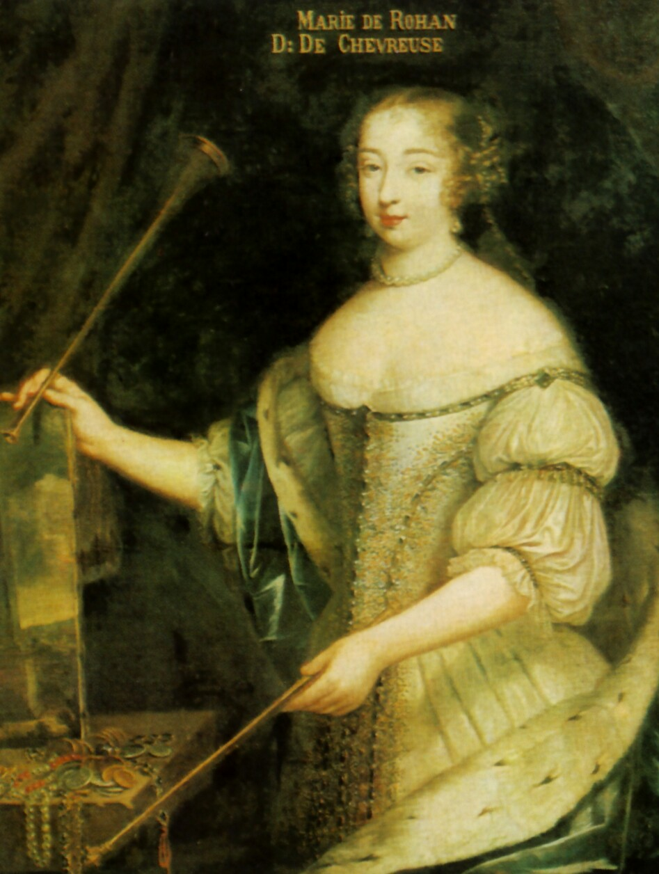 Portrait of Marie de Rohan.